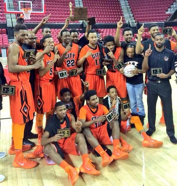 The 2014 MPSSAA State Champion City College Knights pose with their trophies.